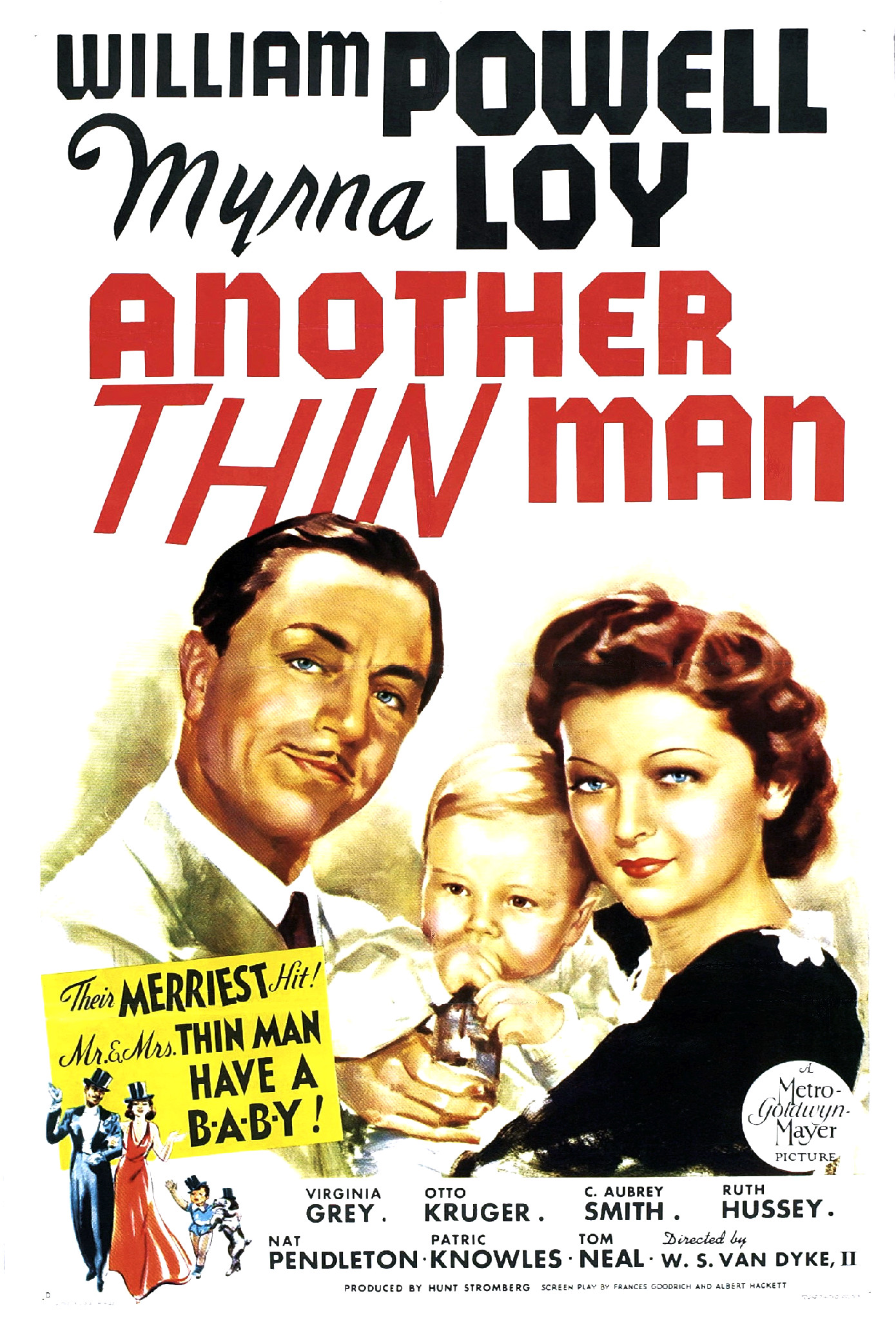 Poster for the American film Another Thin Man (1939). Note-the original upload was for a different version of the poster. Someone uploaded this version over it. This version of the poster is also in the public domain--there's a copy at Commons File:1939 Another Thin Man poster.jpg. The item has no copyright markings on it as can be seen in the links above. At bottom left is "D" (poster version) Litho in USA; at bottom right is Tooker Litho Co. NY-they printed the poster.